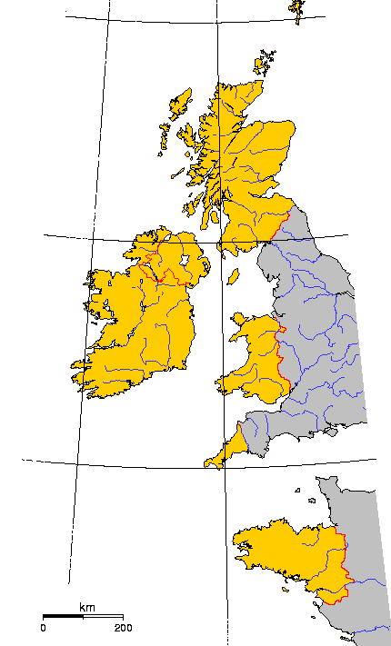 Map of the six main Celtic countries.